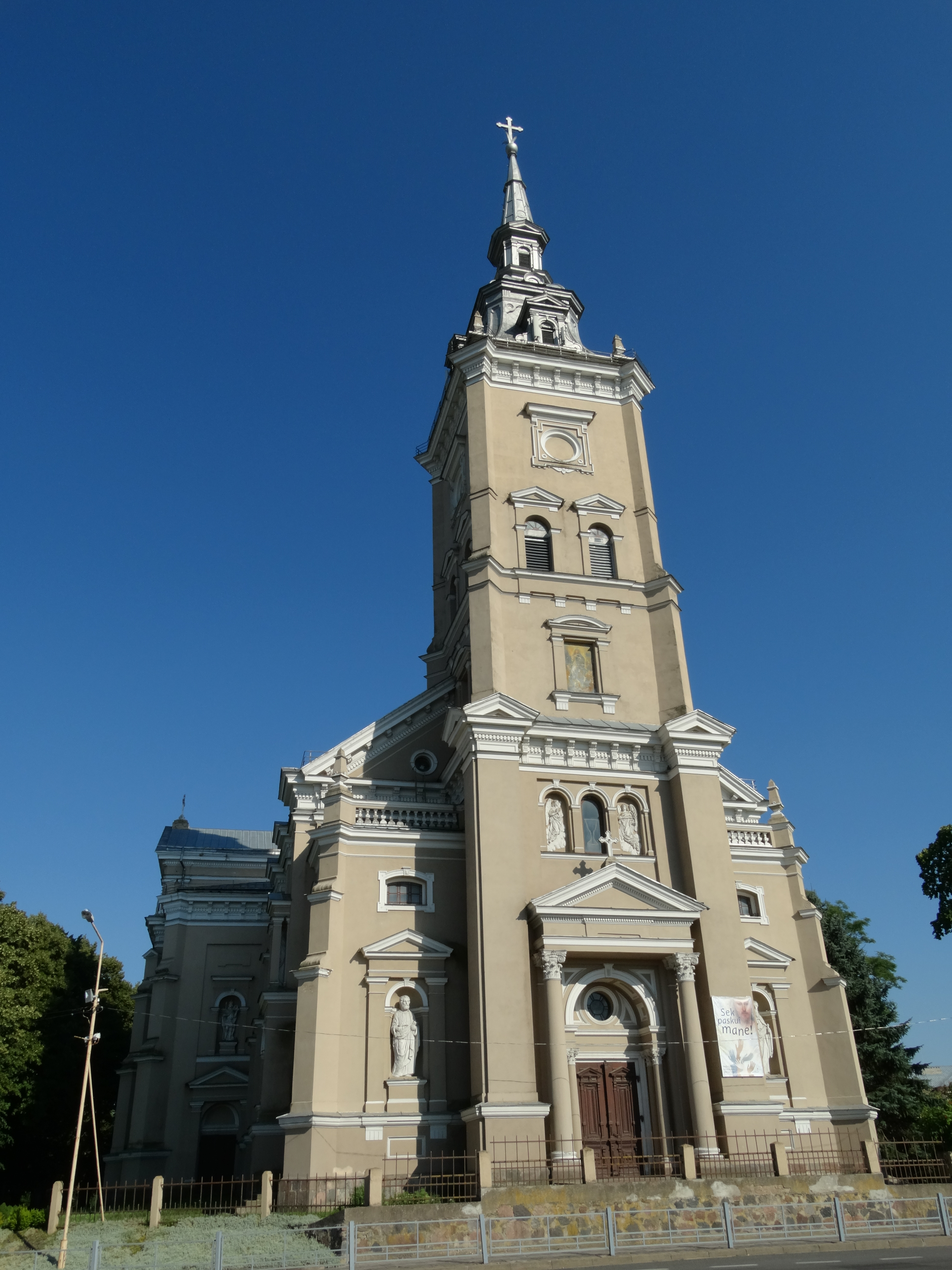 Church of the Assumption of The Holy Virgin Mary, Joniškis, Lithuania